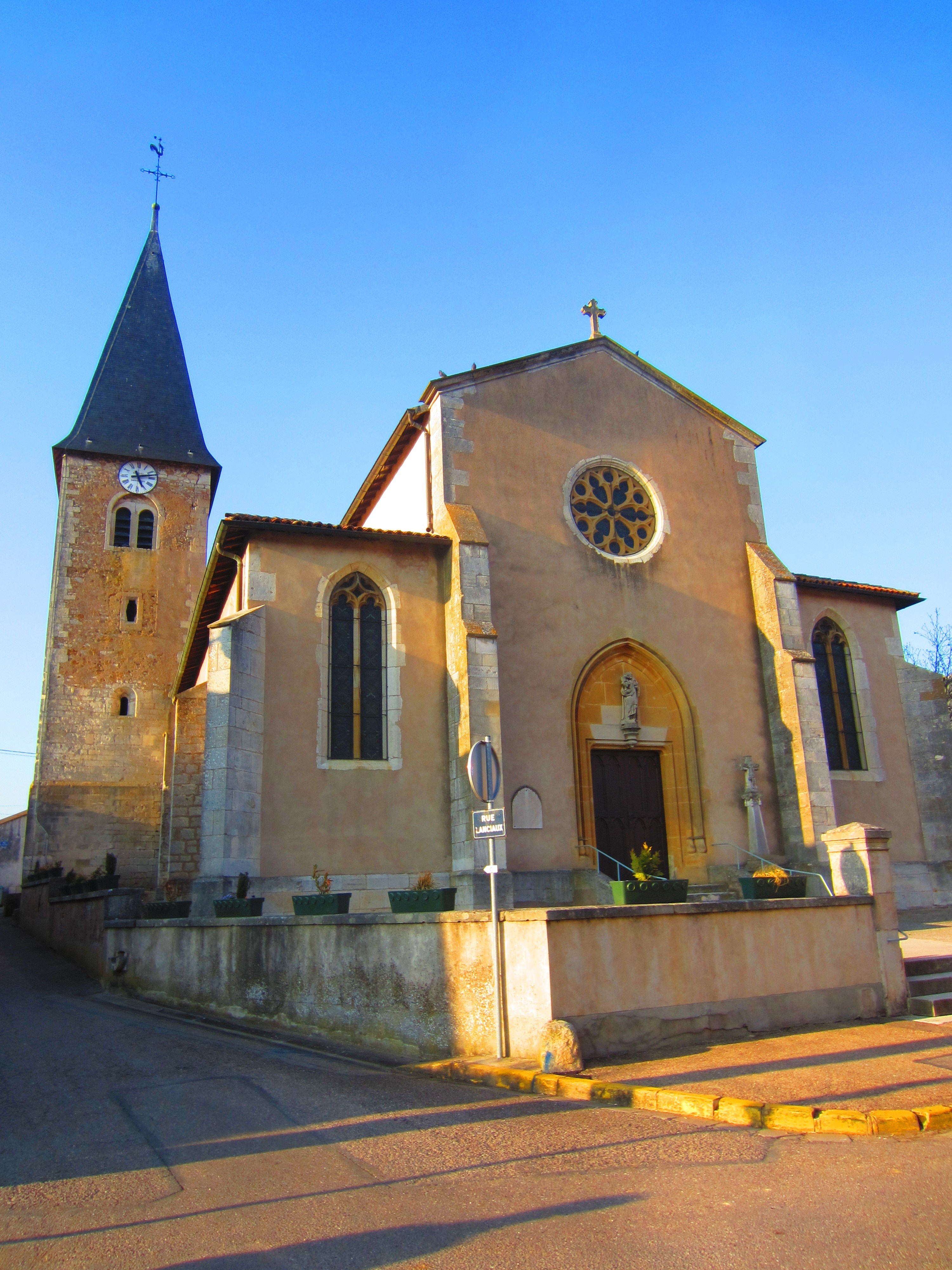 Vandieres church